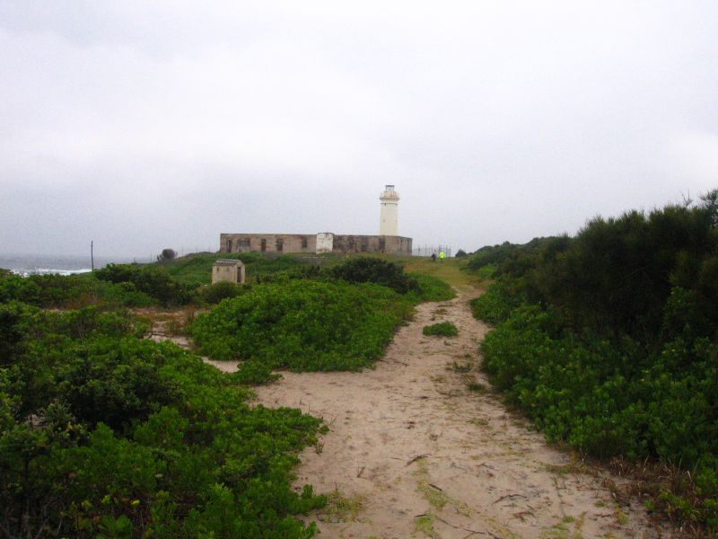 Approach to Point Stephens Lighthouse, showing the keepers' house and other structures